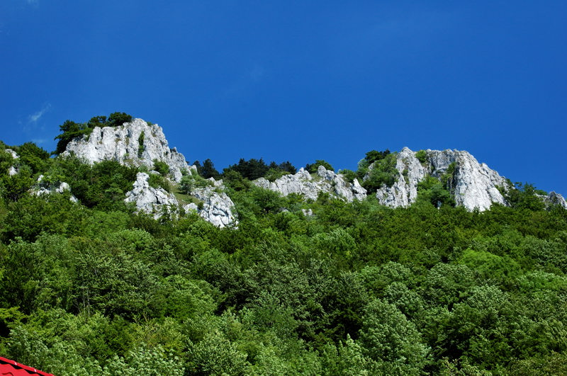 Kršlenica, Plavecký kras